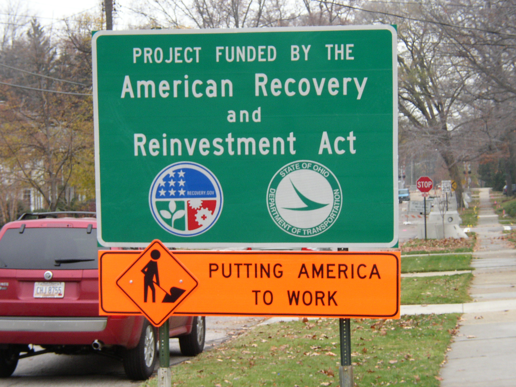 a "Project Funded by The American Recovery and Reinvestment Act" project sign. This is on the opposite side of the crossing, still untouched. The project is for Elmwood Road crossing repairs. (Sewer instillation/repair I believe)